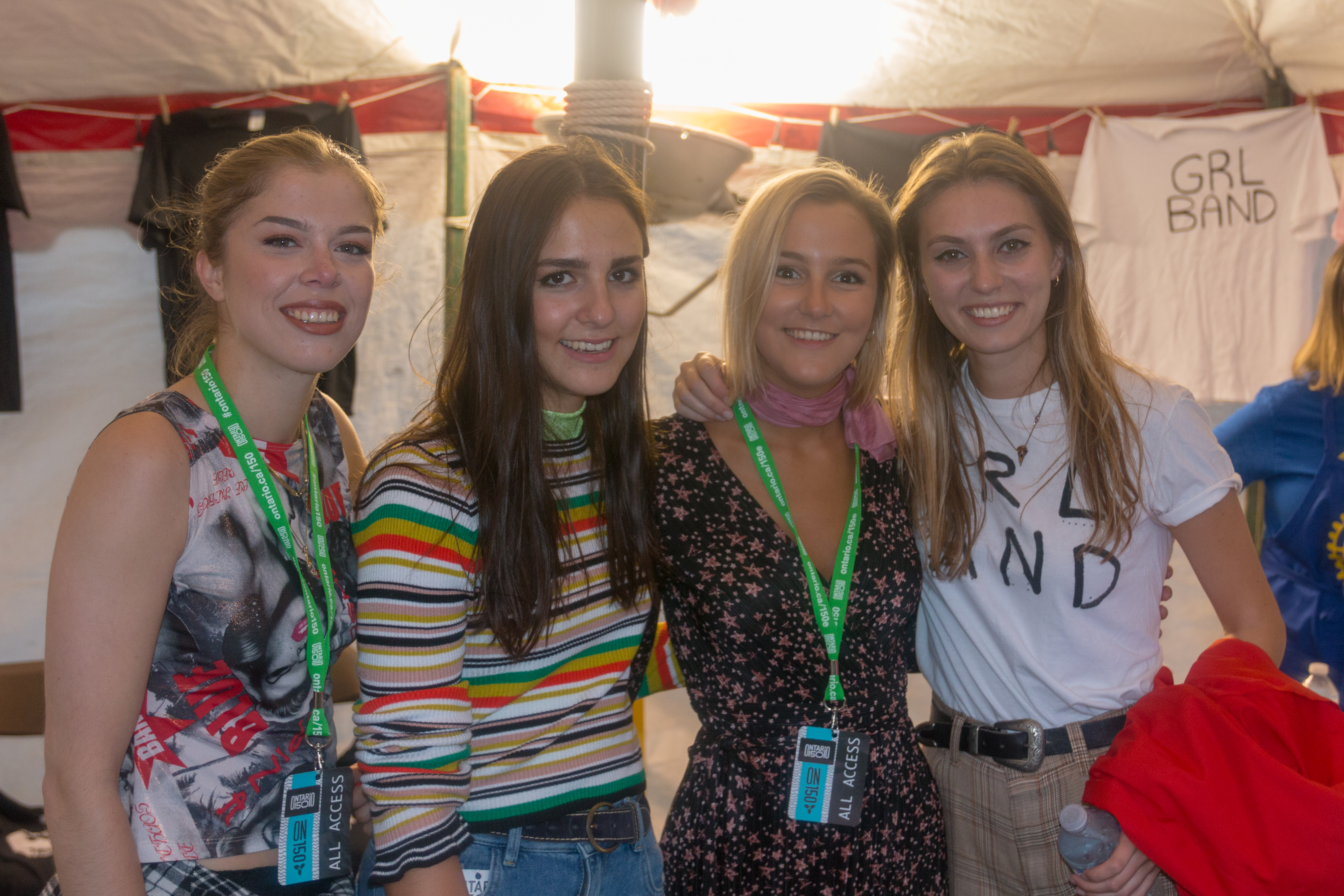 The Beaches at a signing tent following a concert in Guelph, ON. From left: Eliza Enman-McDaniel, Jordan Miller, Kylie Miller and Leandra Earl